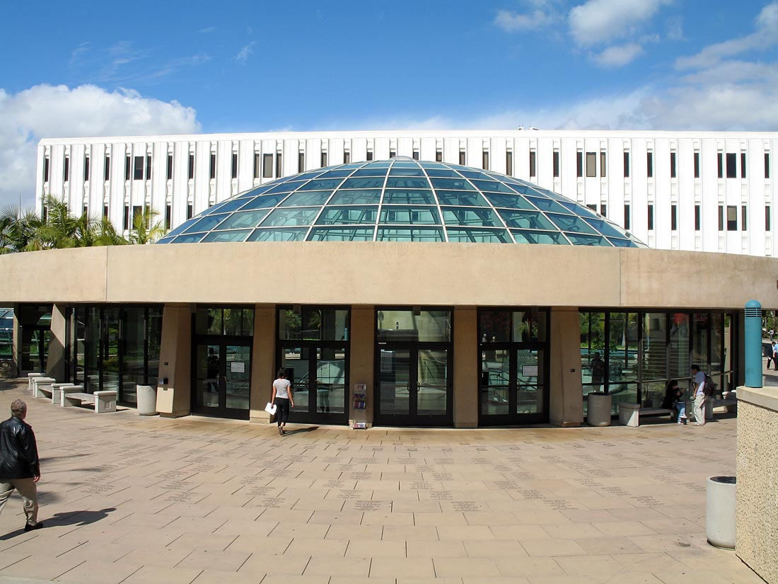 I took plenty of photos of buildings all over the SDSU campus but deleted most of them on the grounds of monumental boringness. The white building in the background can stand in for all the others; I believe it's the library and that you enter it by going down an escalator under the dome in the foreground.